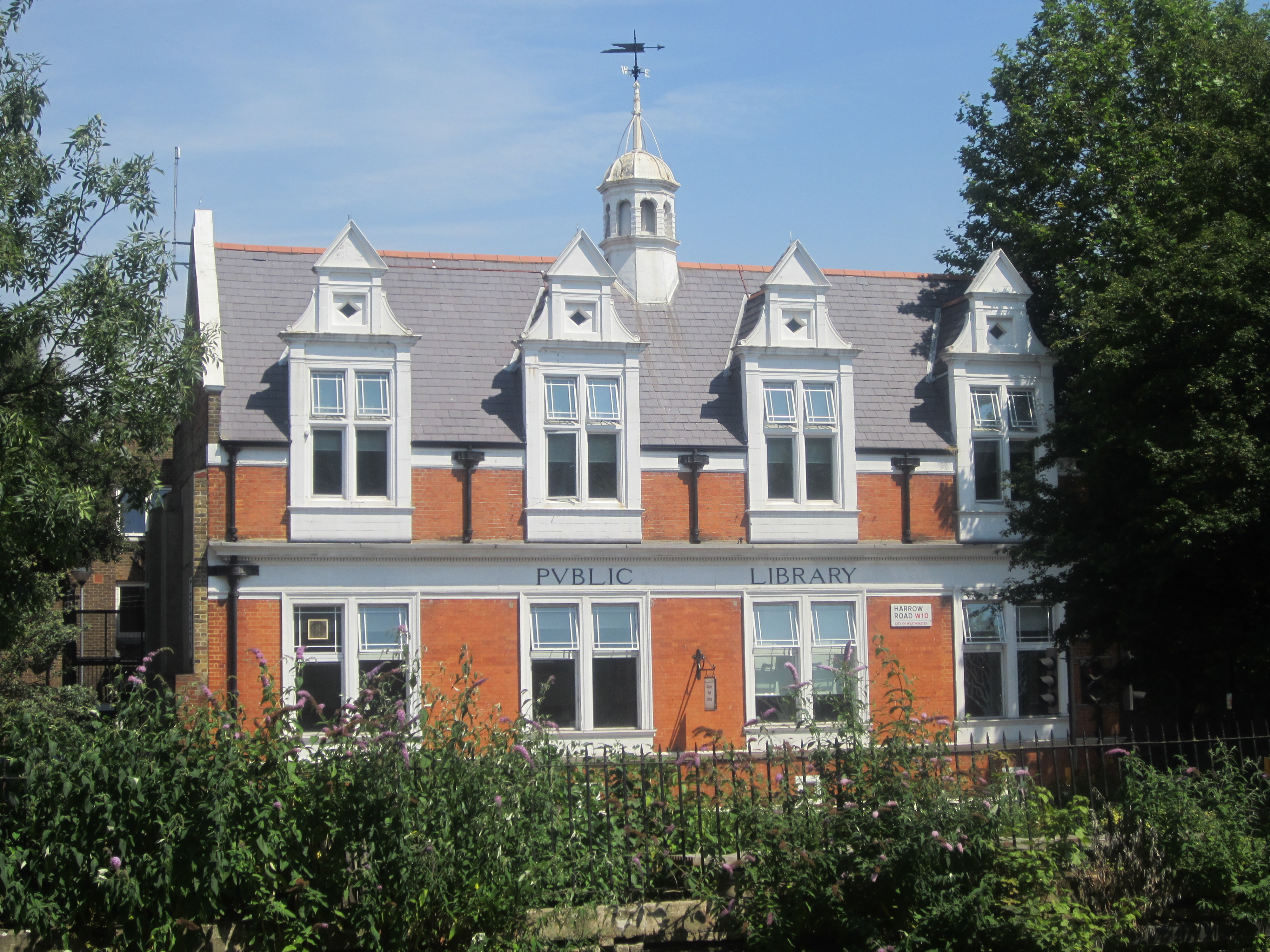 Queen's Park Library, 666 Harrow Road, London. Viewed from the towpath of the Paddington Arm of the Grand Union Canal.